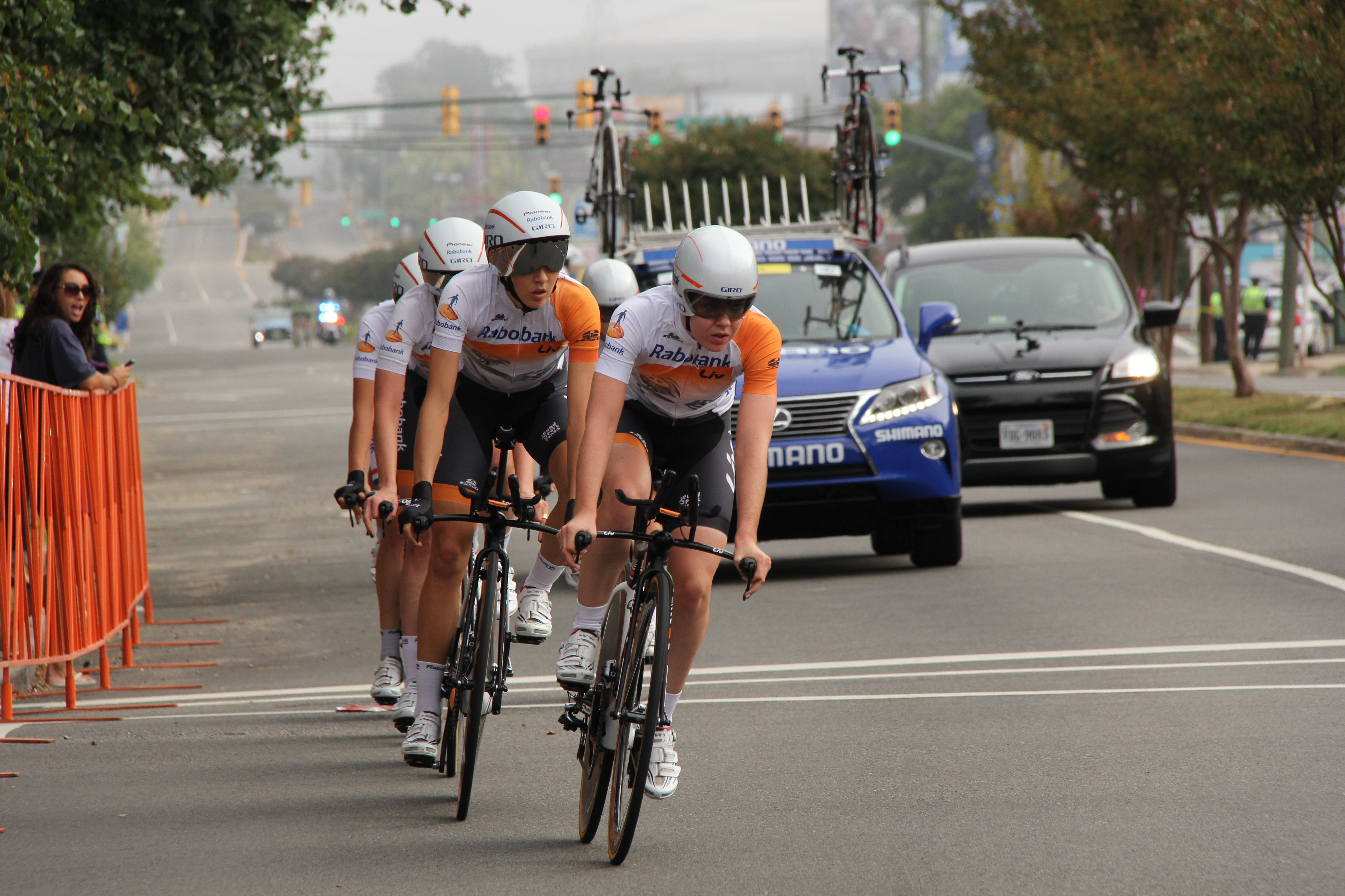 The world has come to Richmond. Welcome! Bienvenidos! Willkommen! 2015 UCI Road World Championships, in Richmond, United States